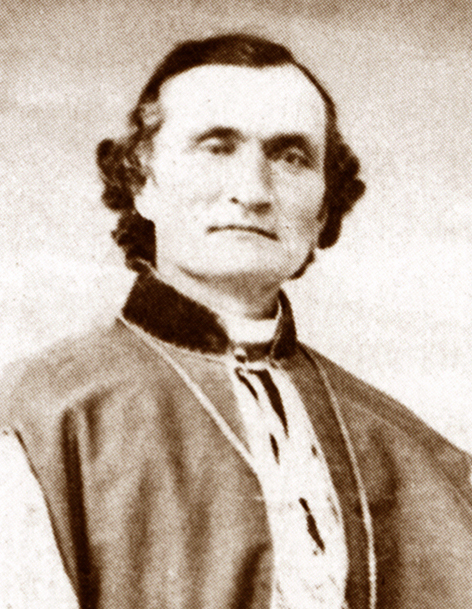 Photography of John-Baptist Lamy